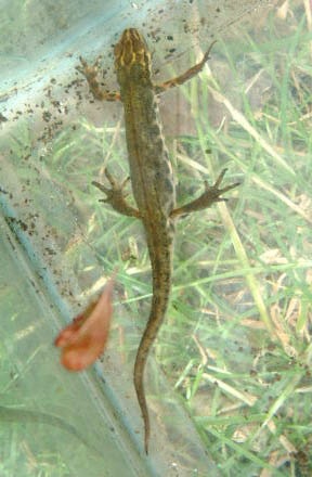 Smooth newt, Triturus vulgaris, Linnaeus, 1758